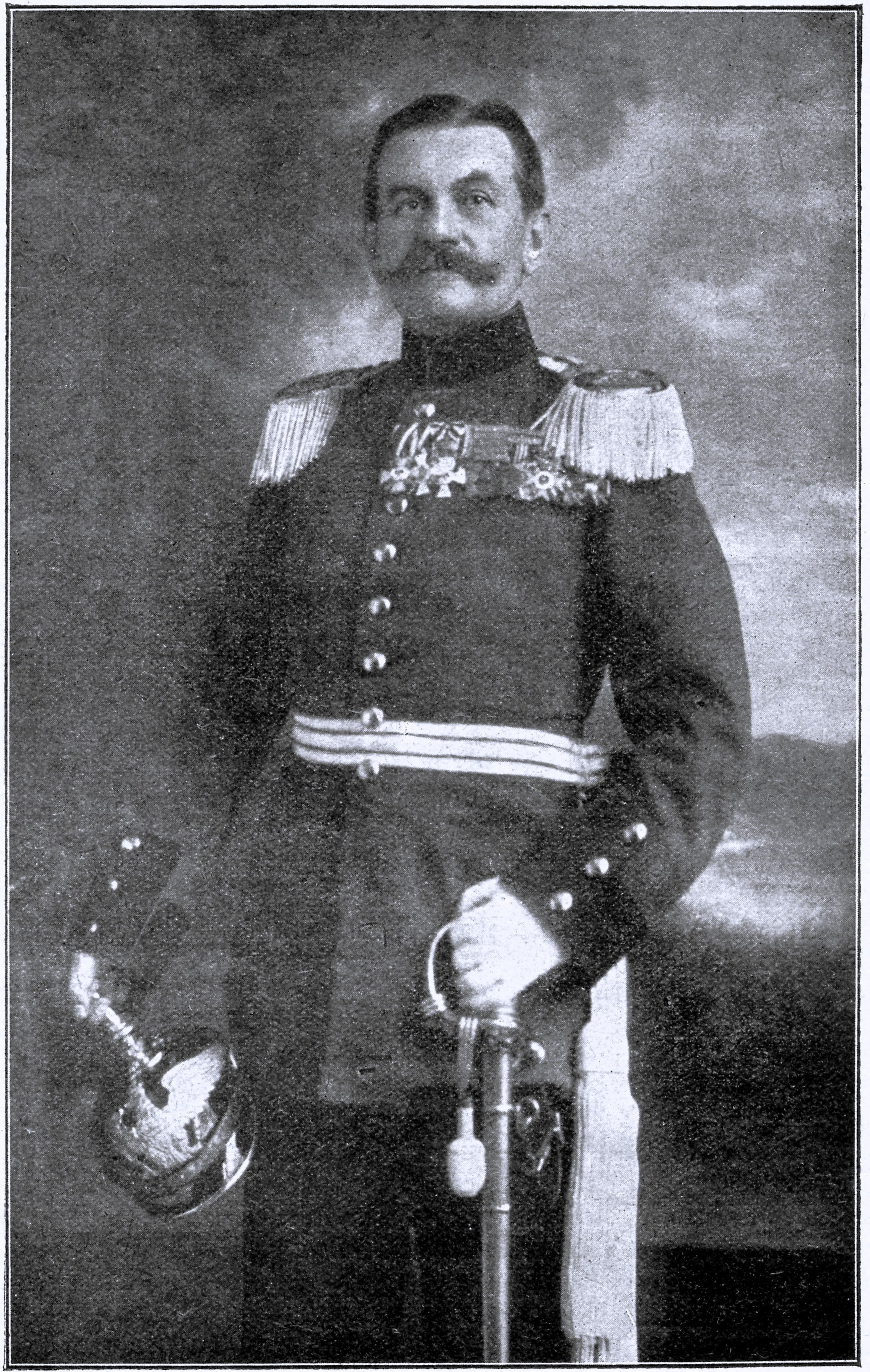 prussain major general Hermann von der Heyde